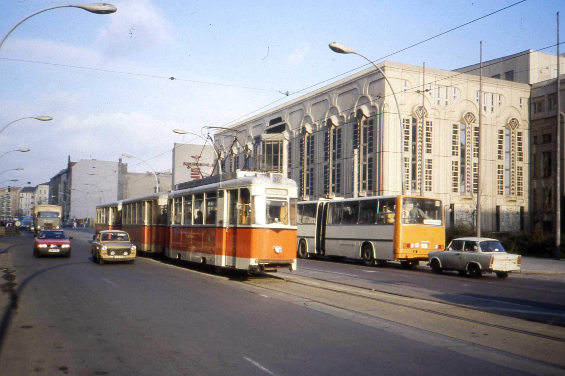 A 217 class REKO tram in Friedrichstrasse, route 46 from Niederschoenhausen to Friedrichsgracht, the turning circle in central Berlin shared with 25 and 49 route which also utilised the older style of tram. In the backgroud an articulated Ikarus bus of BVB. Lots more photos here of Berlin Rekowagen.